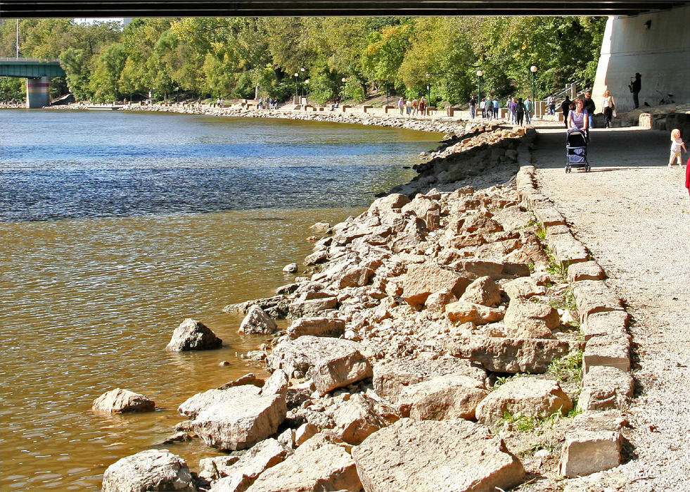 River Walk, downtown Winnipeg